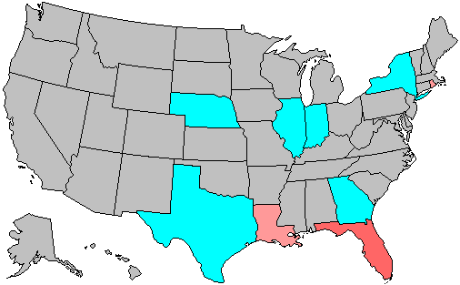 Summary of party change of U.S. house seats in the 1988 House election. Stripes indicate a tie between the gains of two or more parties. Legend: 6+ Democratic seat pickup 3-5 Democratic seat pickup 1-2 Democratic seat pickup 1-2 Republican seat pickup 3-5 Republican seat pickup 6+ Republican seat pickup Note: years ending in 2 may have inconsistent results due to redistricting.